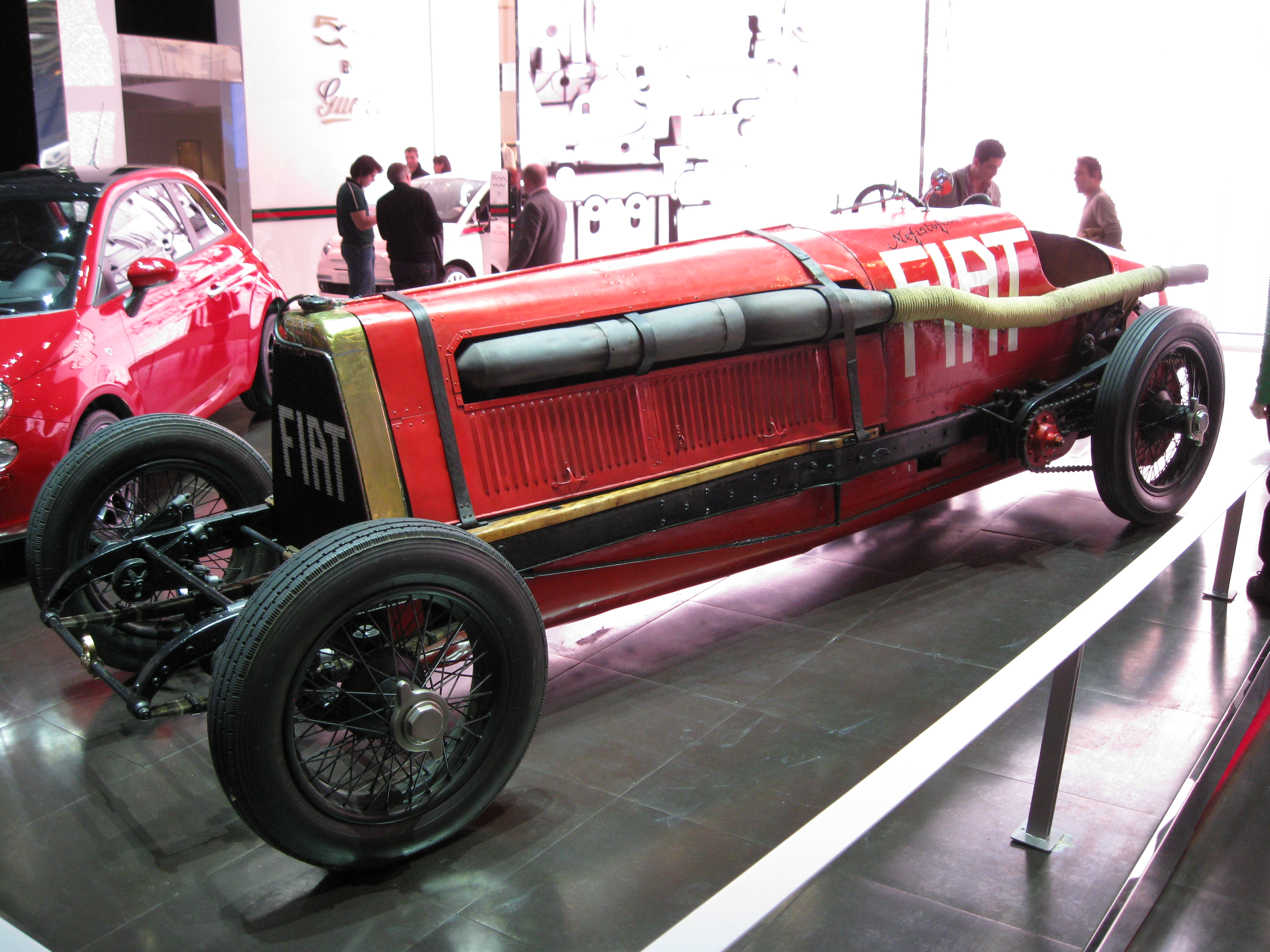 Fiat Mefistofele (based on a model Fiat SB4), side view, Geneva Motor Show 2011